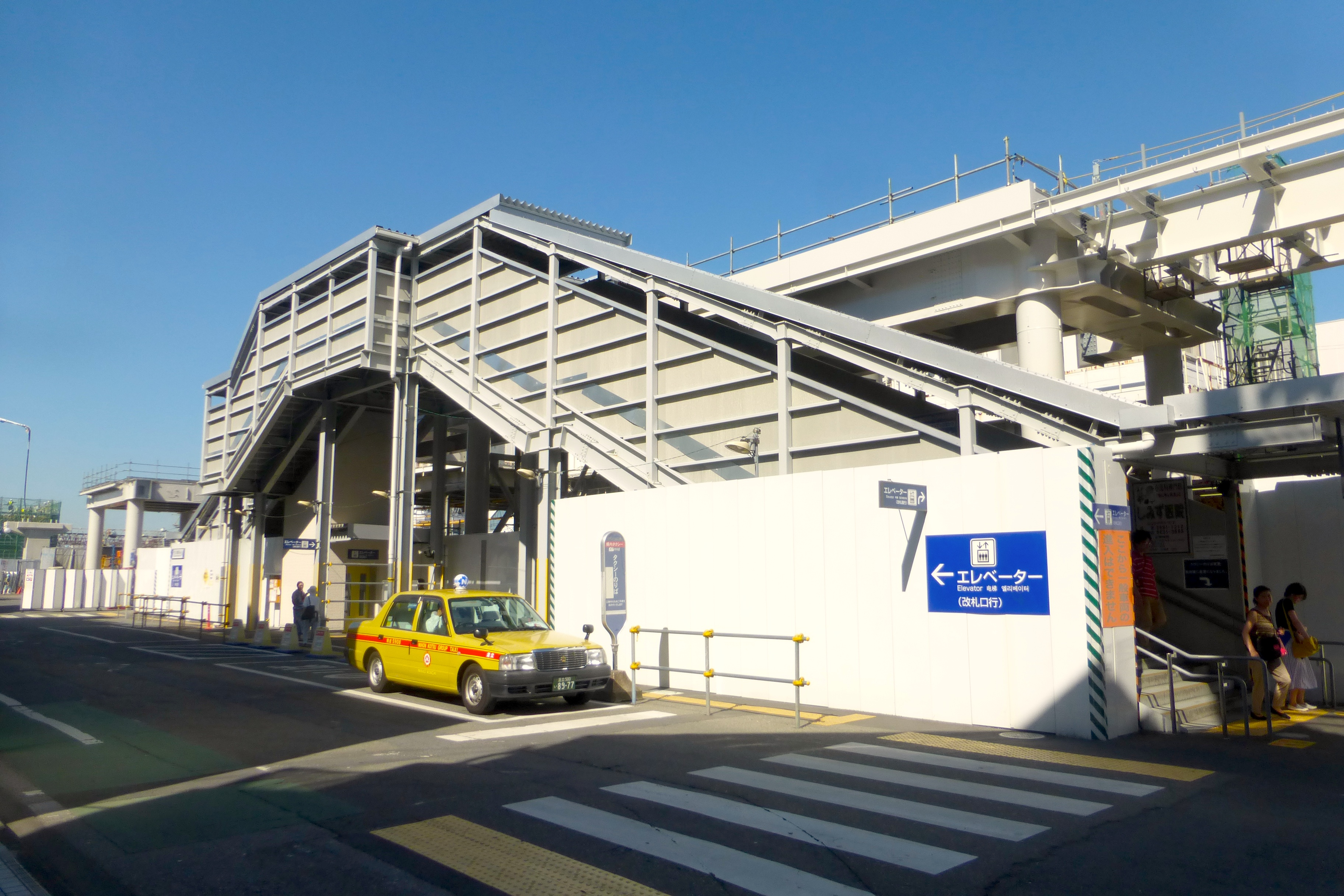 Takenotsuka Station west exit （竹ノ塚駅の西口）